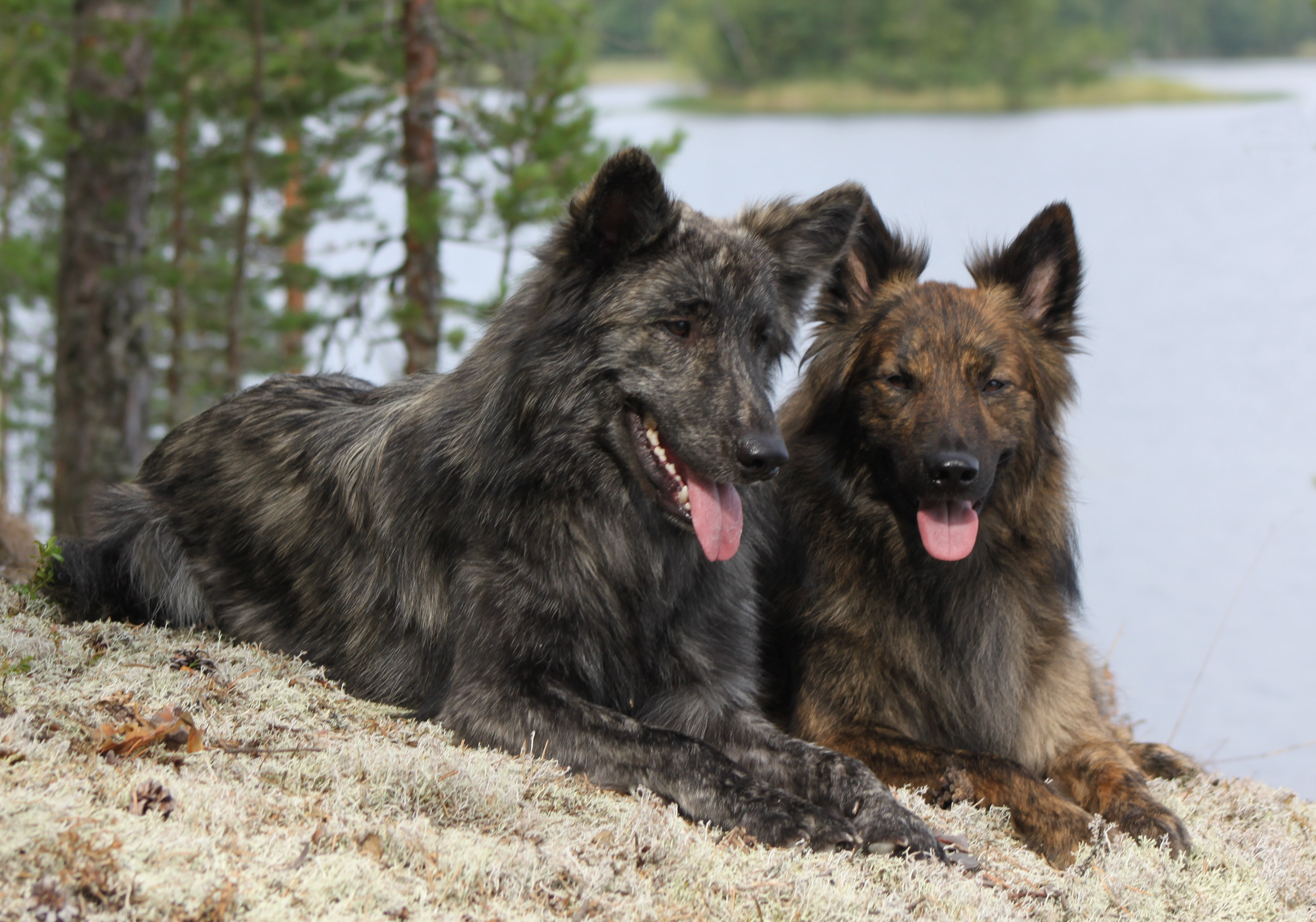 Silverbrindle and goldbrindle are the approved colors of the breed.